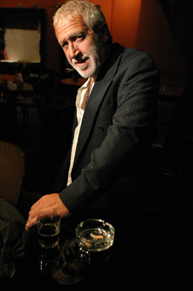 Picture of Gordon Haskell